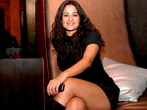 Mona vasu at ishq bector music album launch